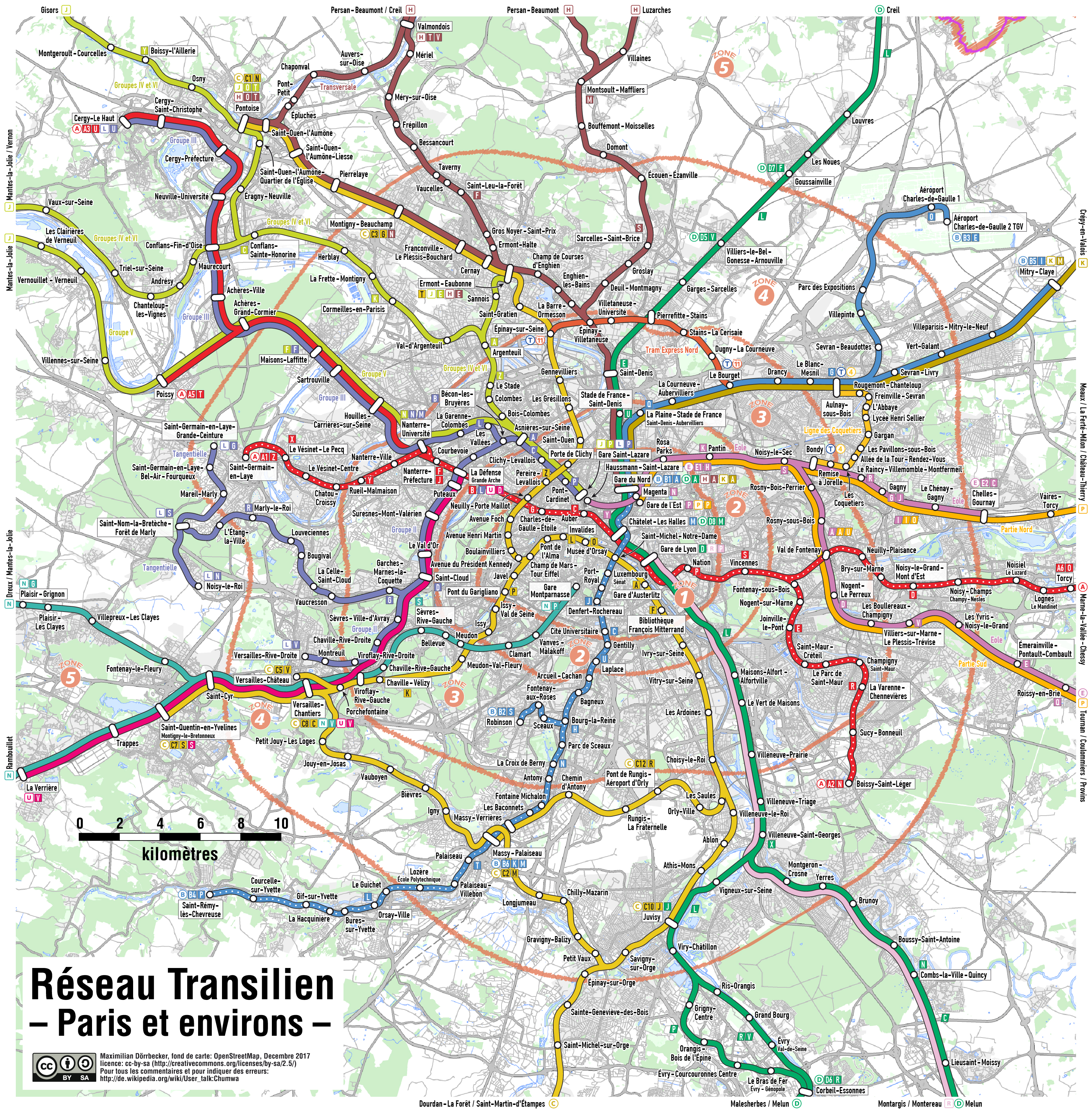 Map of the Transilien network in the Paris region. A detailed legend for the can be found here.